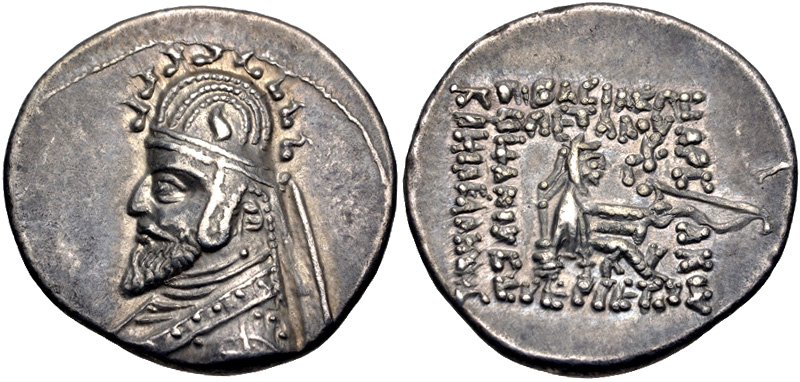 Coin of Phraates III with bust facing left, minted at Ray.